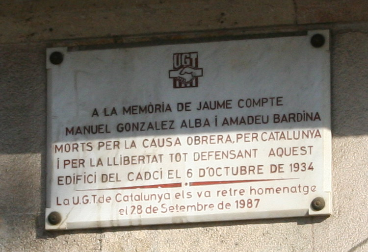 Former CADCI headquarters in Barcelona, place of fighthing in october 6th 1934. Nowadays, UGT offices in Barcelona.